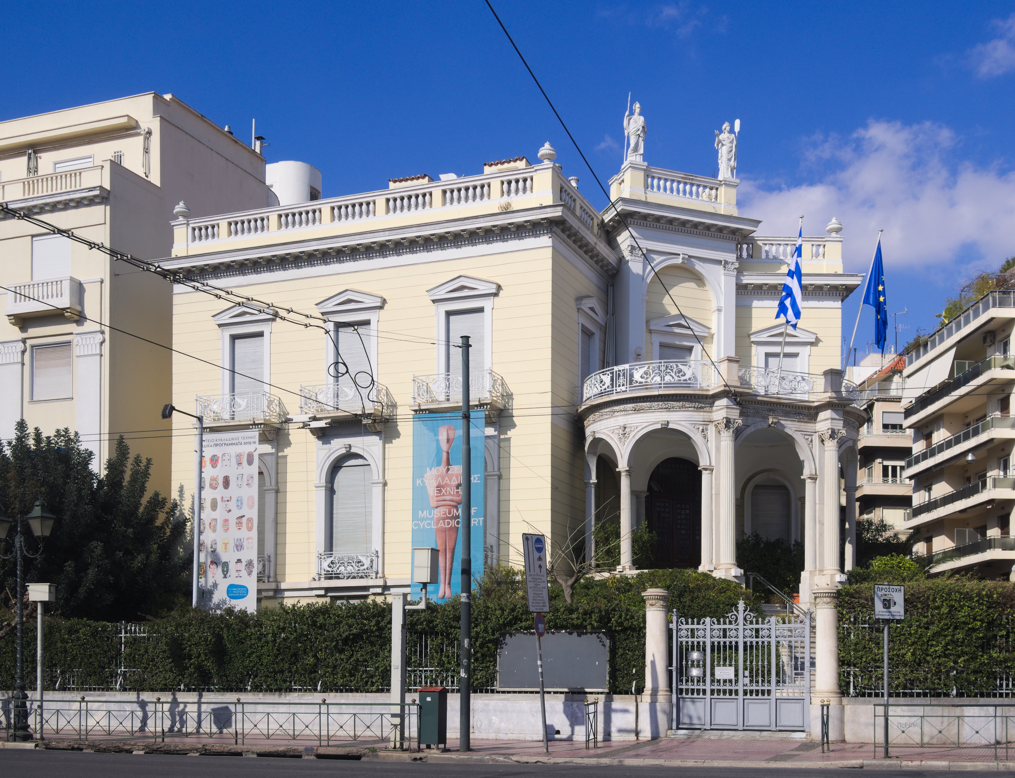 Stathatos mansion. Built in 1895 by Ernst Ziller. Nowadays in houses the museum of Cycladic art.